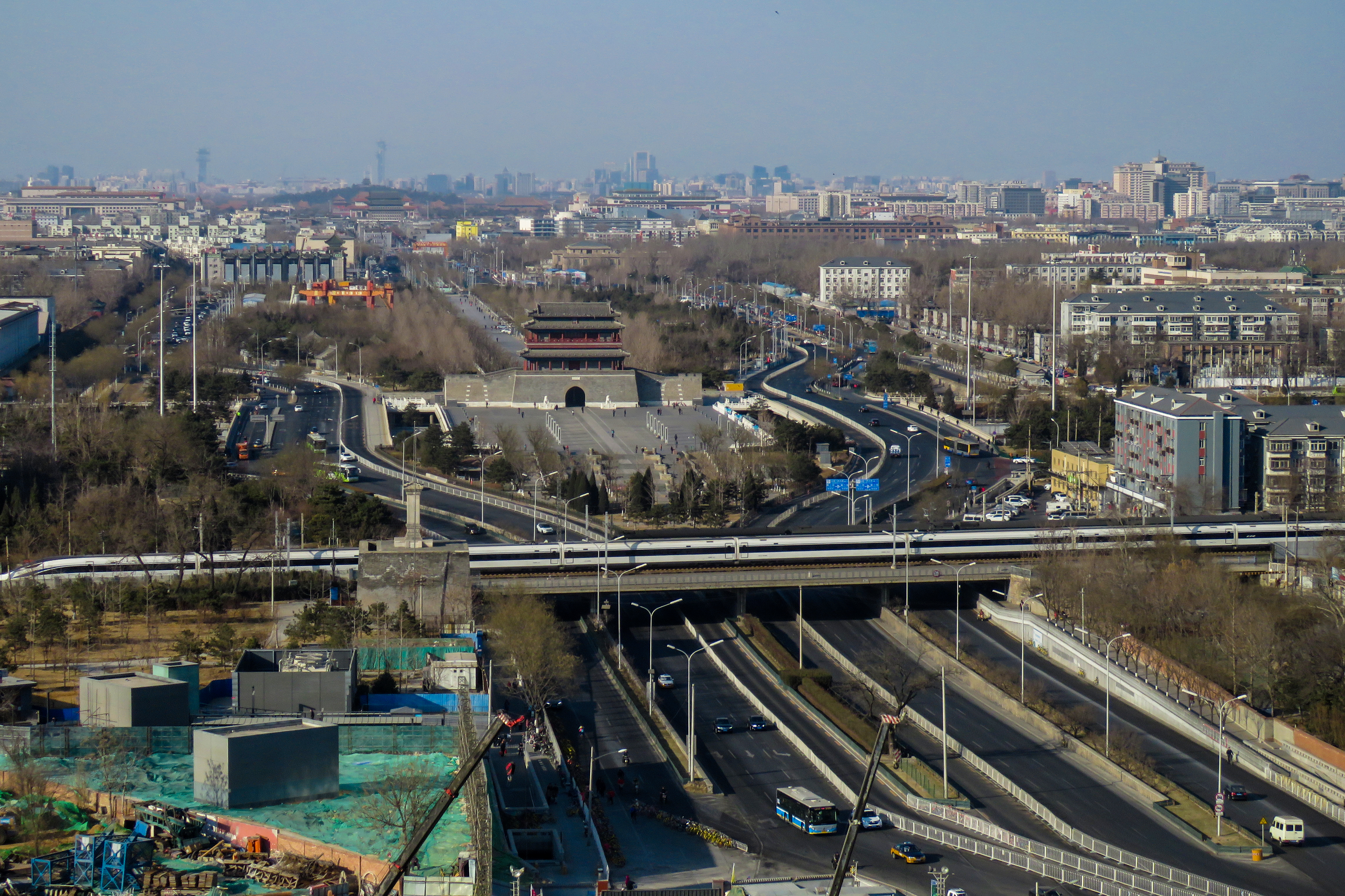 C2588 from Yujiapu. Still, the visibility on the south is not so fine...